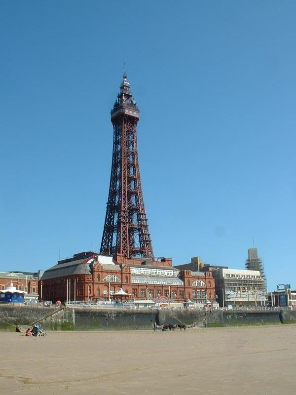 Blackpool Tower. Photographed by Rich Daley (OwlofDoom).